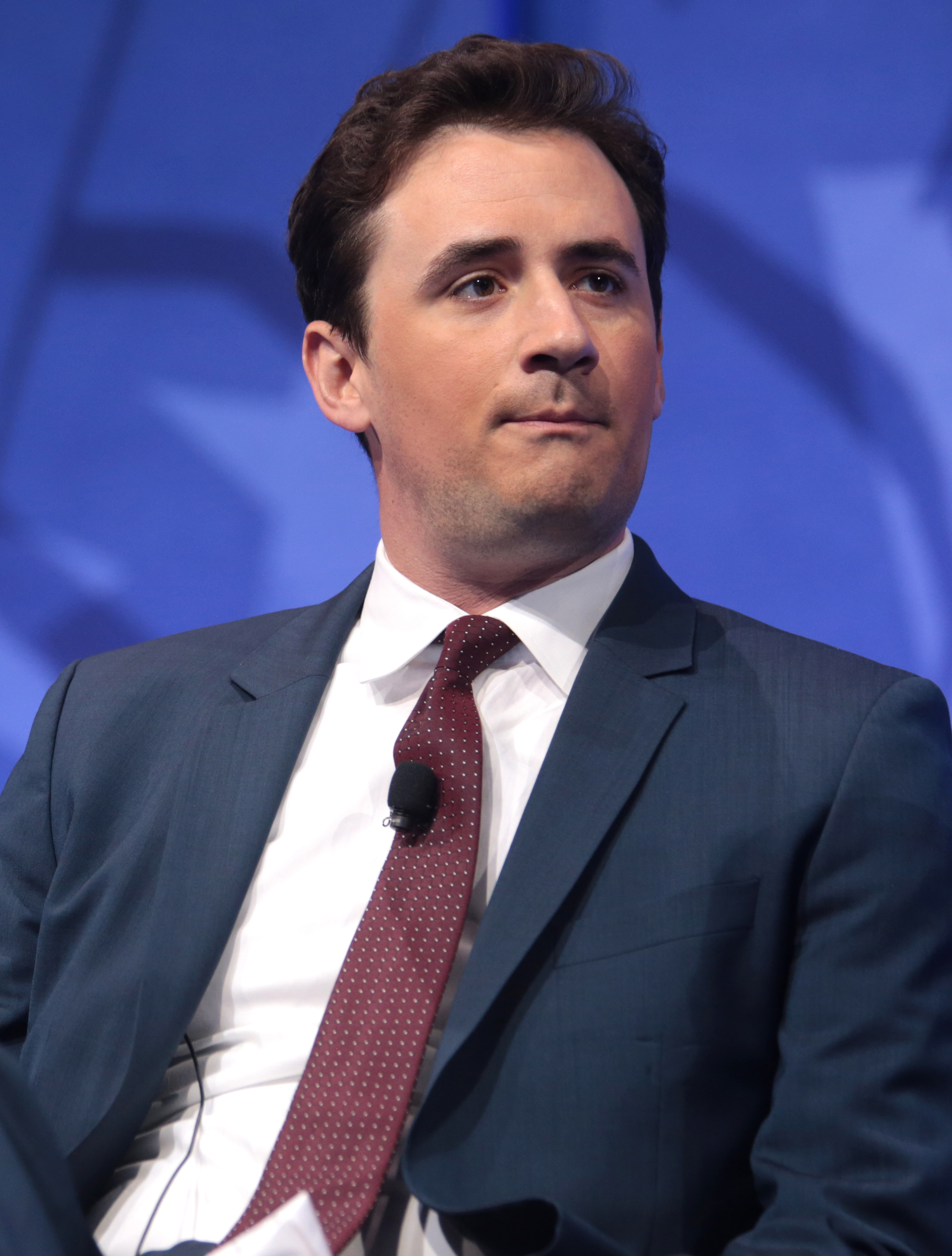 Alexander Marlow speaking at the 2017 CPAC in National Harbor, Maryland.